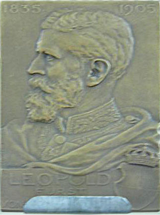 Placard of Leopold of Hohenzollern-Sigmaringen. Part of a temporary exhibit on Carol I of Romania, at National Museum of Romanian History, Bucharest.